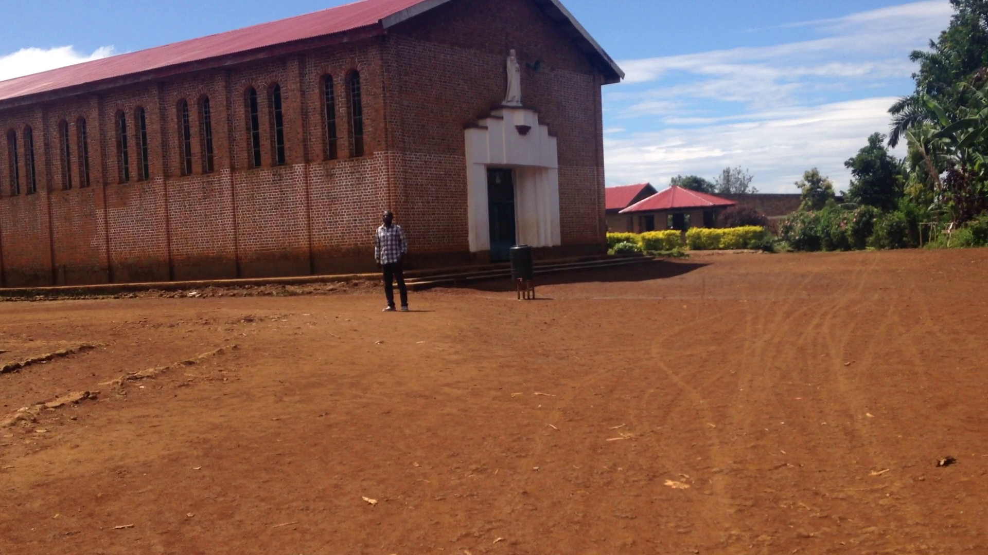 La paroisse de Kashofu est un édifice catholique situé sur l'île d'Idjwi en République démocratique du Congo